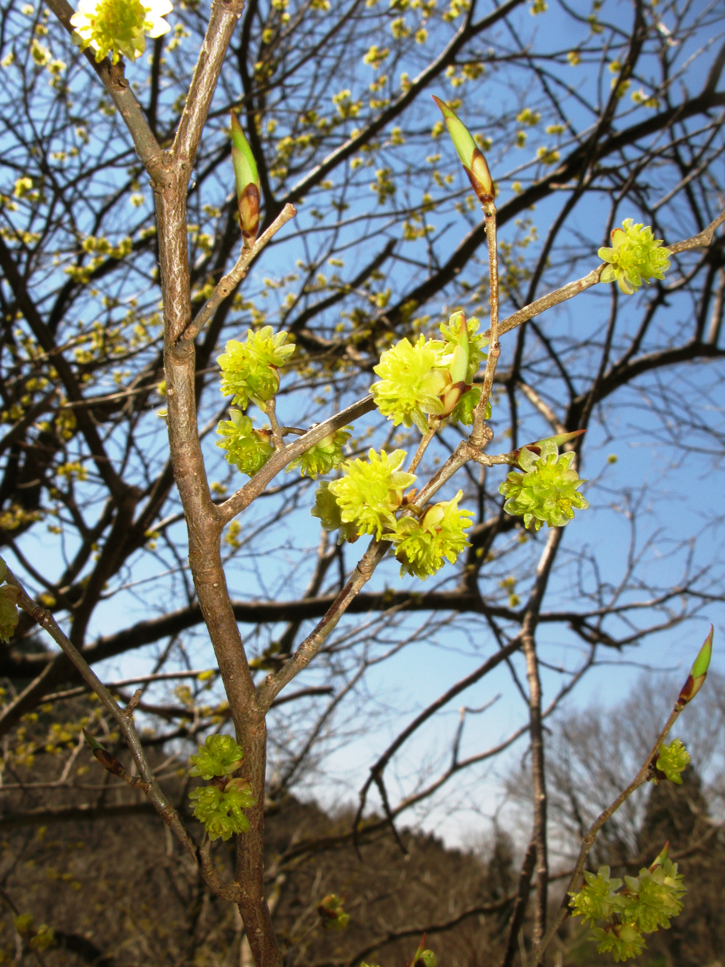 Lindera praecox, male flowers, Aizu area, Fukushima pref., Japan